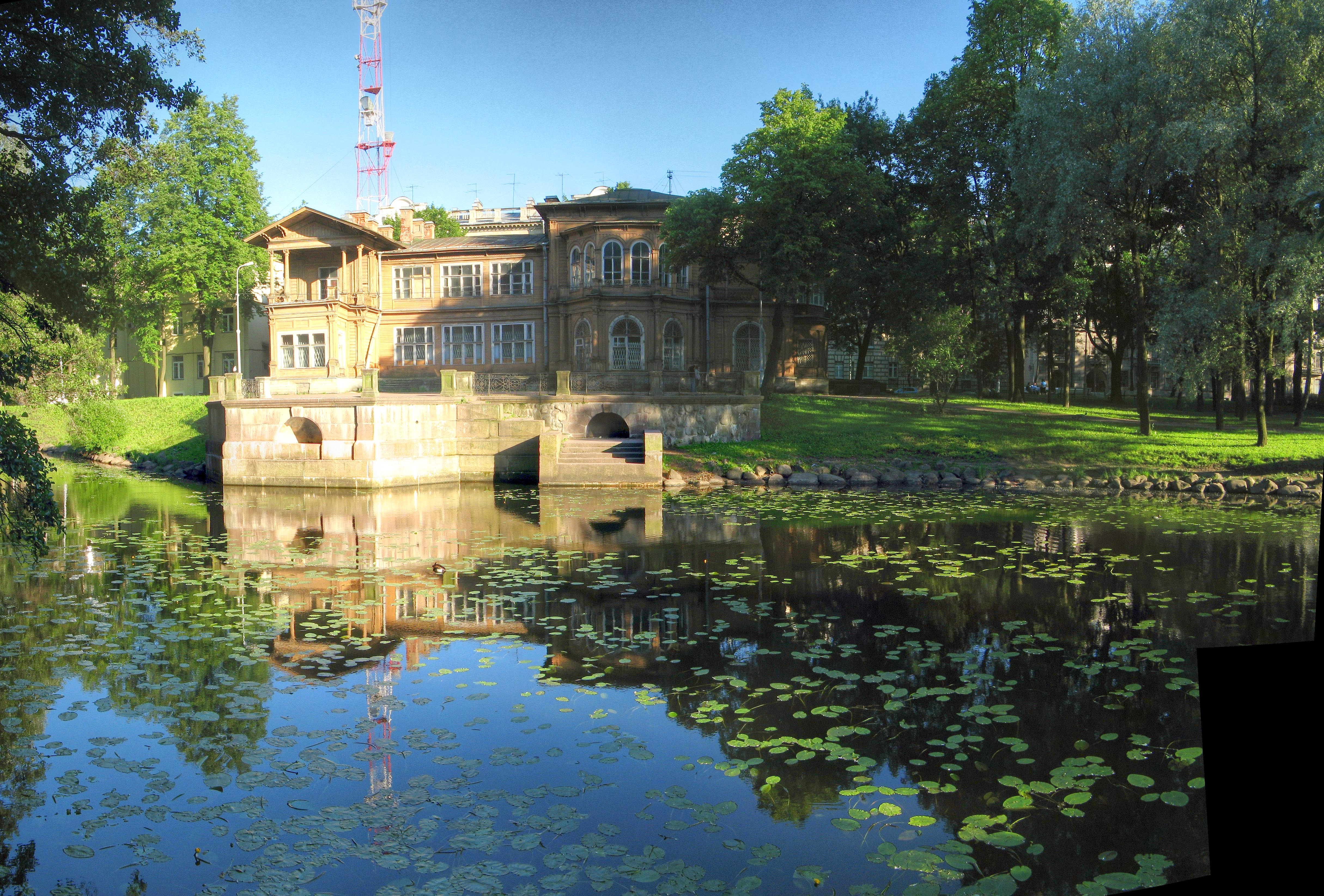 Lopukhinsky Garden, Saint-Petersburg. View on Gromov's dacha